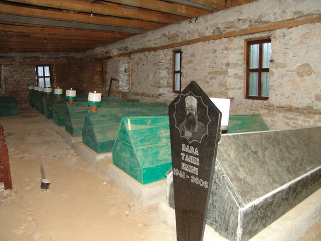 Harabati Baba Bektaşi Tekkesi (Arabati Baba Teḱe) - Kalkandelen (Tetovo), Makedonya 23 Eylül (Sept.) 2012